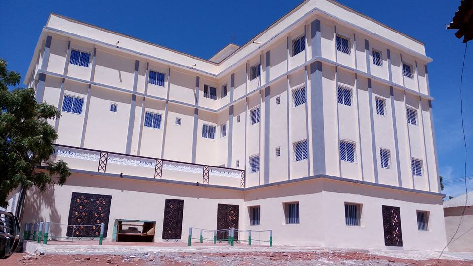 Tawakal Bank Group